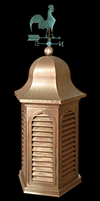 This is a 6-sided copper cupola with copper finial - copper Rooster weather vane mounted on top Rutland Copper Gutter Supply & Architectural Copper Work